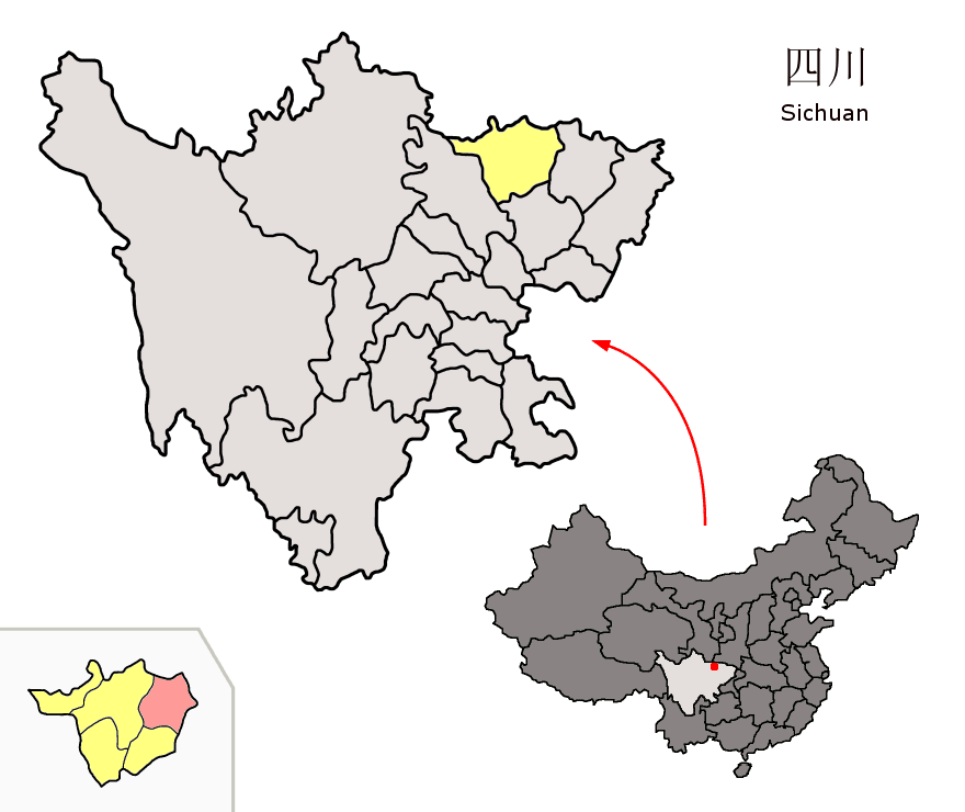 Location of Wangcang County (pink) and Guangyuan Prefecture (yellow) within Sichuan province of China Map drawn in october 2007 using various sources, mainly : Sichuan province administrative regions GIS data: 1:1M, County level, 1990 Sichuan Counties map from